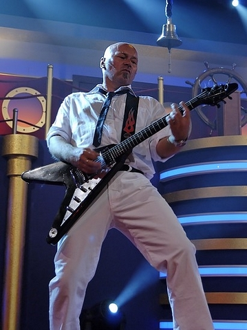 Armin Sabol, Musician from Germany